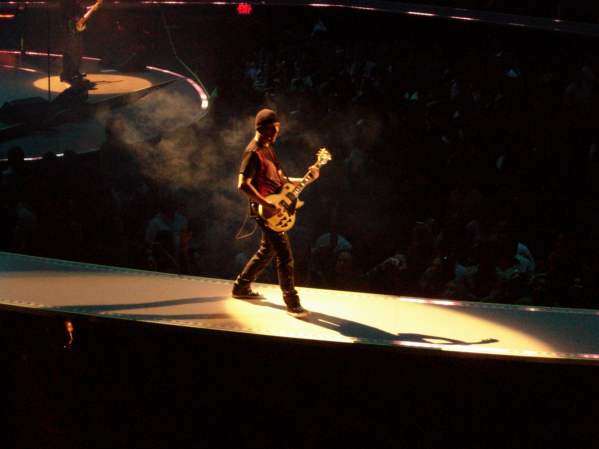 The Edge from U2 on 1 April, 2005 in Anaheim.